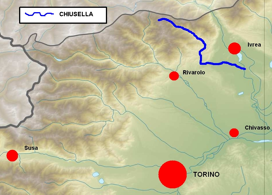 Chiusella position within Turin province (NW Italy)